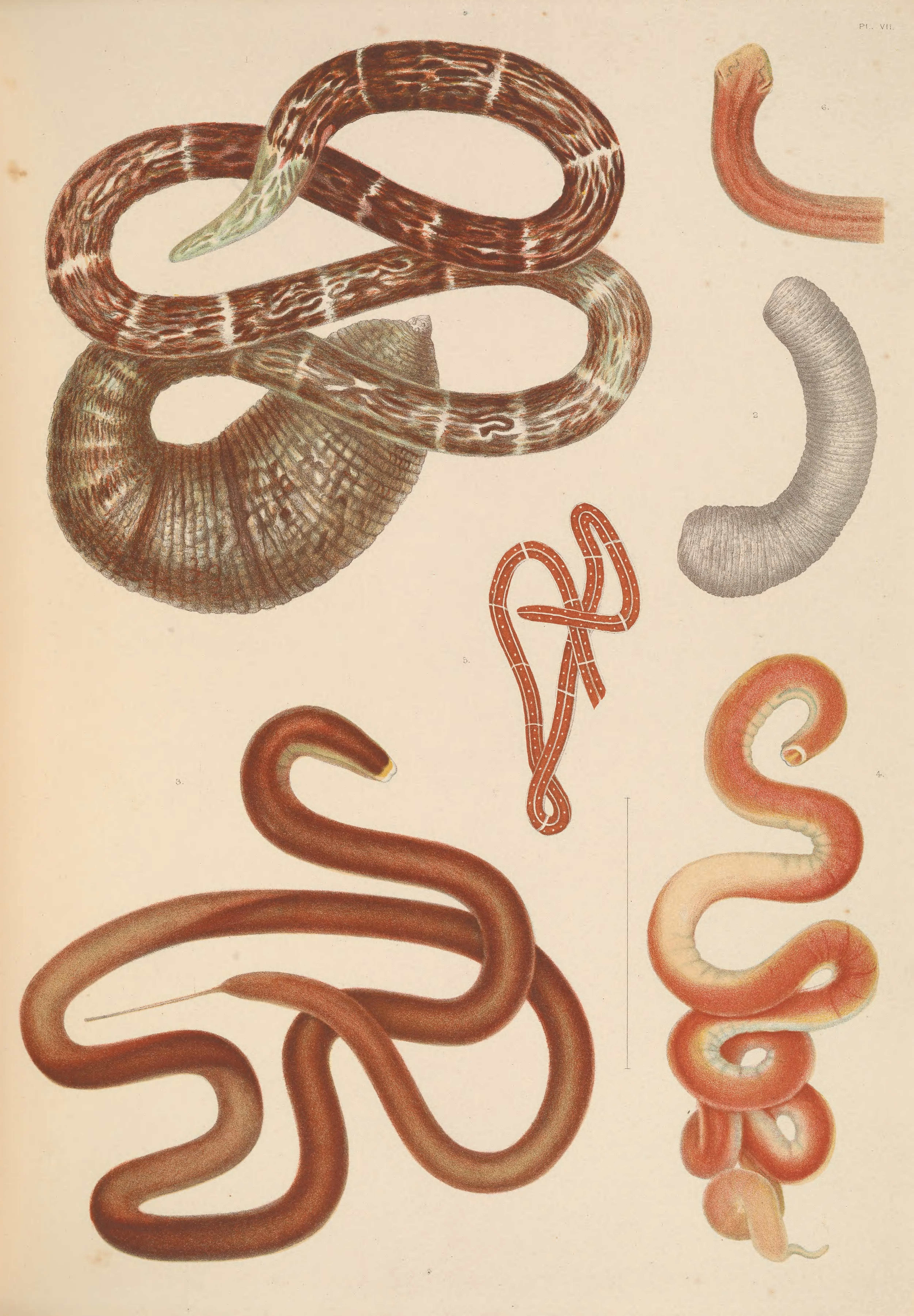 A monograph of the British marine annelids. Plate text 1, 2 Borlasia elisibethae = Euborlasia elizabethae (McIntosh, 1874) (Lineidae) 3 Micrura purpurea (Dalyell, 1853) (Lineidae) 4 Micrura aurantiaca = Leucocephalonemertes aurantiaca (Grube, 1855) (Lineidae) 5 Carinella annulata (Montagu, 1804) (Tubulanidae) 6 Nemertes neesii (Nemertea) = Emplectonema neesii (Örsted, 1843)